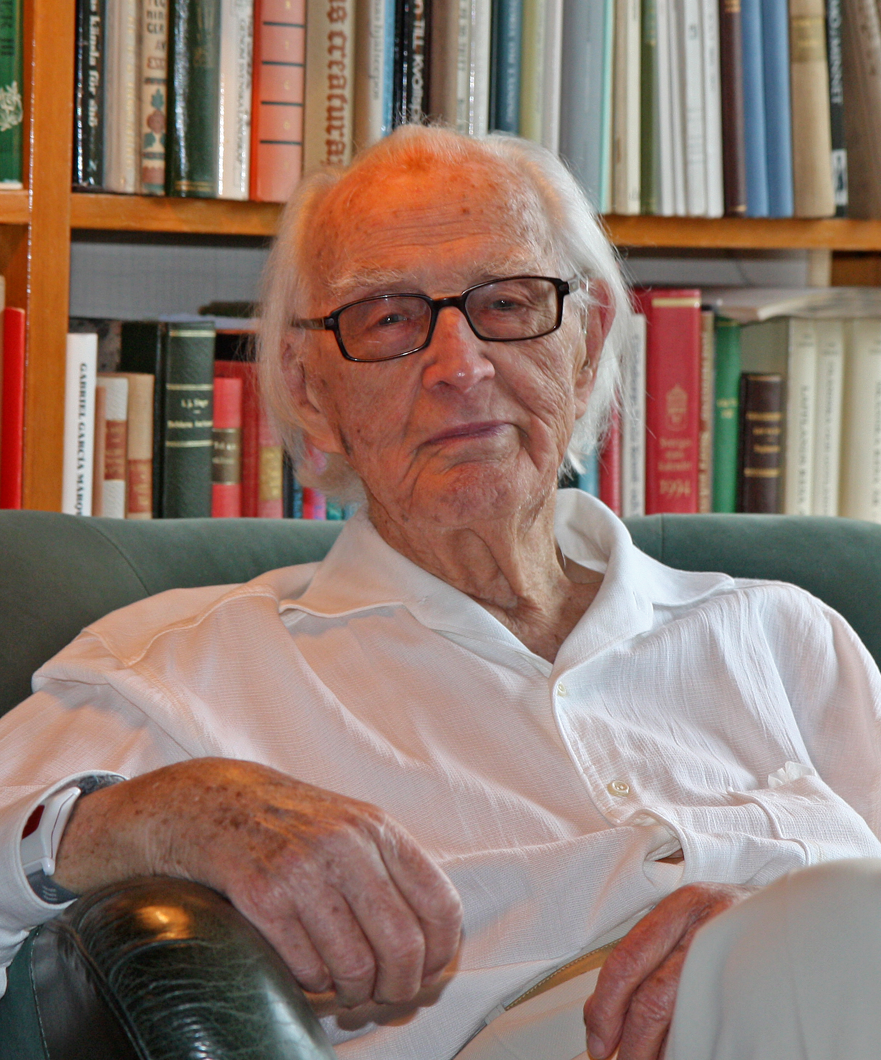 Gunnar Sjoqvist, b 1914 (98 years of age) in his private library